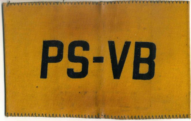 Special constables in Czechoslovak Socialist Republic Volunteers in Police Service in Czechoslovak Socialist Republic